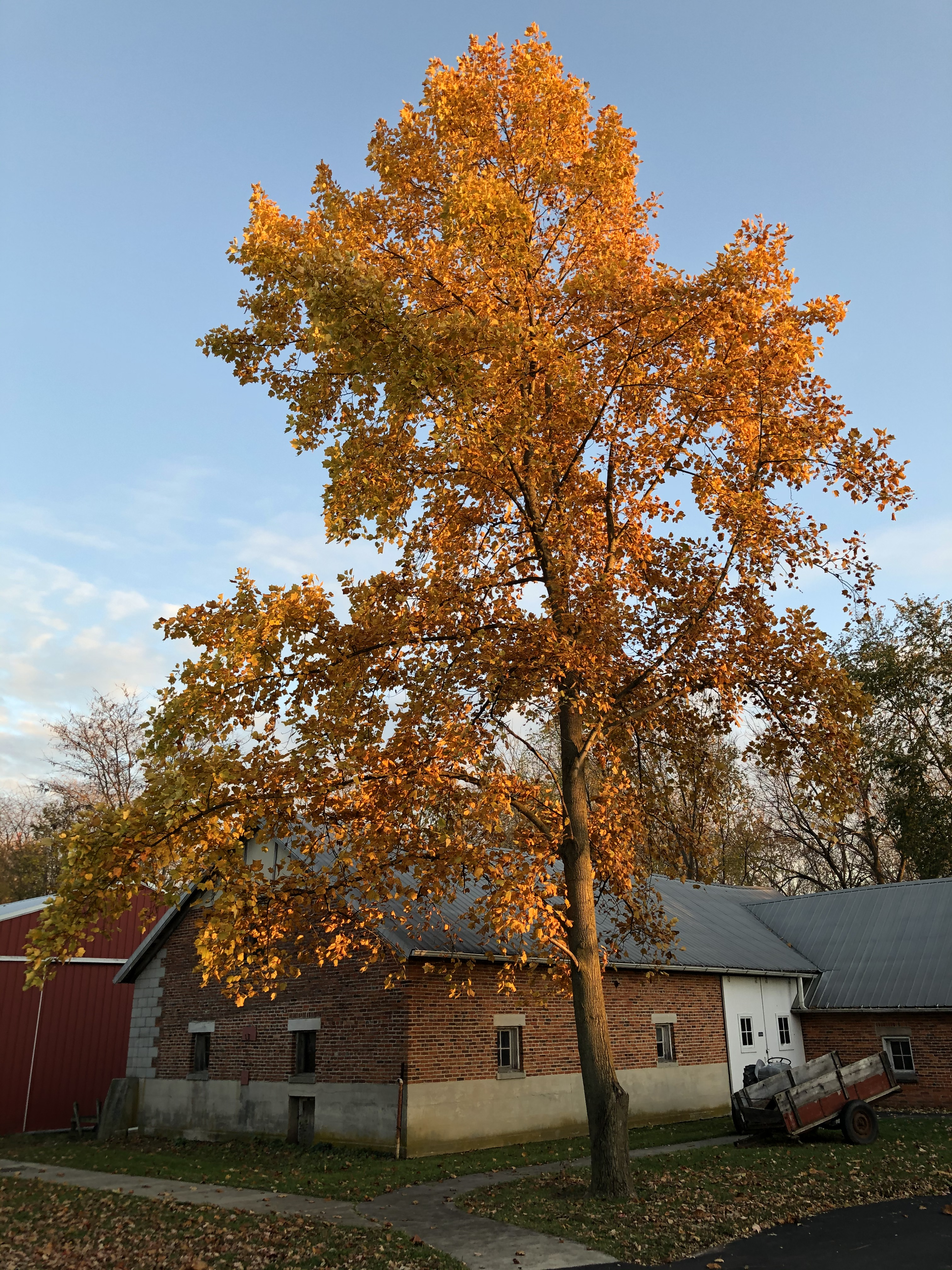 The Hog Barn at the Wood County Historical Center and Museum